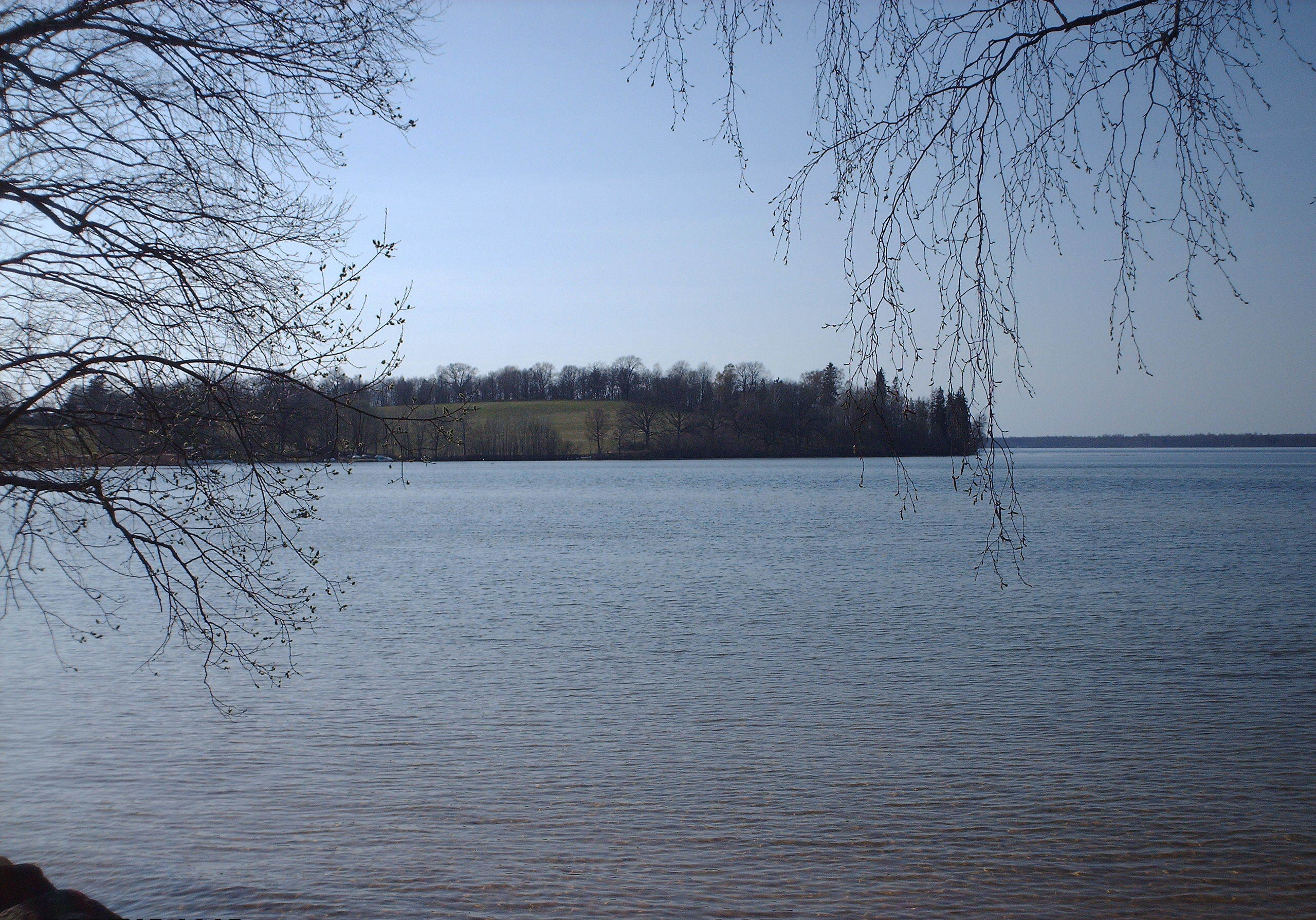 Marieberg, Motala, Sweden.